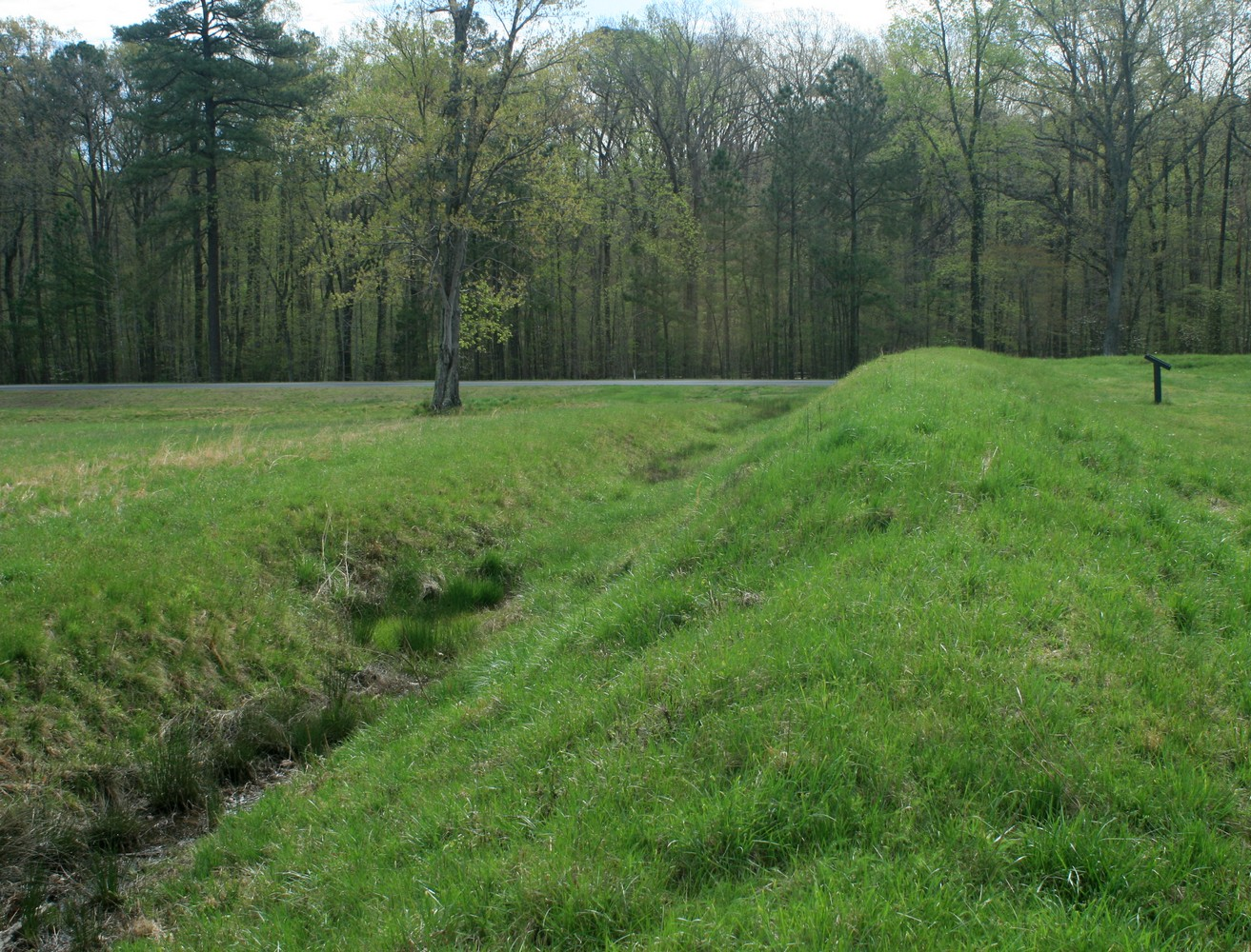 Petersburg defence line, Fort Haskell, North side.